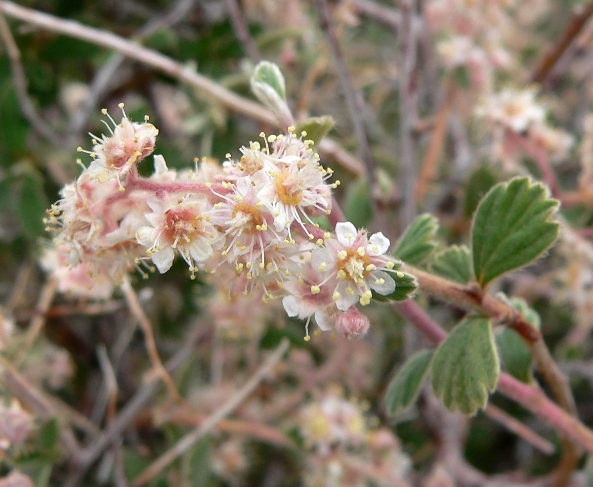 Holodiscus microphyllus var. microphyllus on the North Loop trail east of Mummy Mountain, Spring Mountains, southern Nevada (elev. about 3000 m)